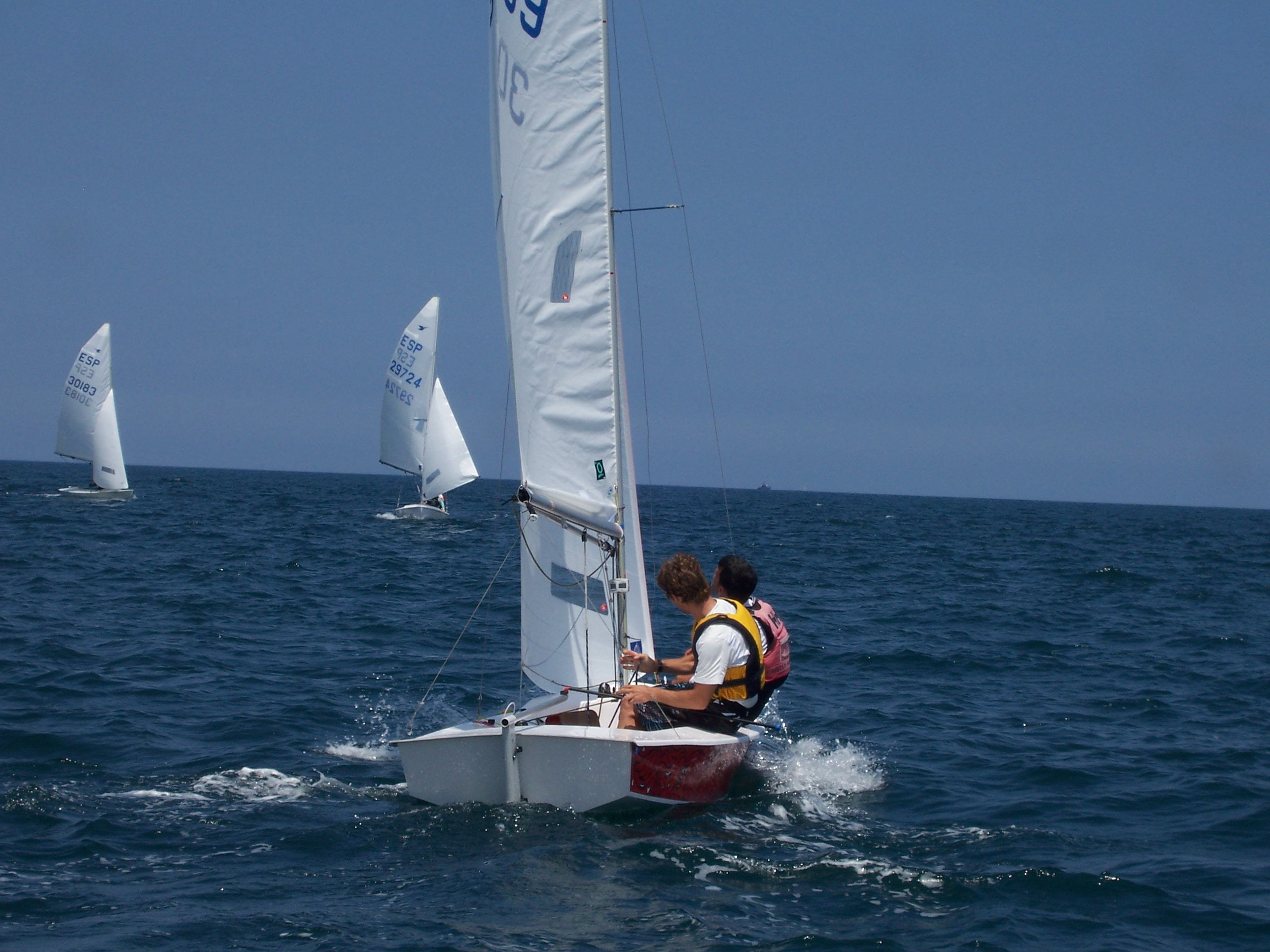 Aureliano Negrín at Spain's 2011 Snipe Nationals in Gijón